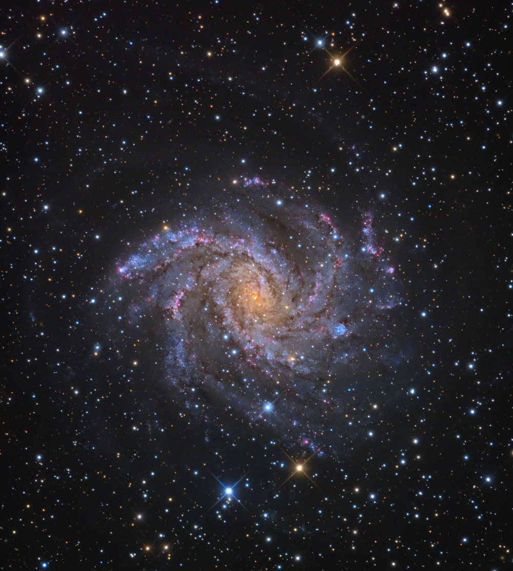 Deep exposures of Galaxies using the 0.8m Schulman Telescope at the Mount Lemmon SkyCenter Credit Line & Copyright Adam Block/Mount Lemmon SkyCenter/University of Arizona